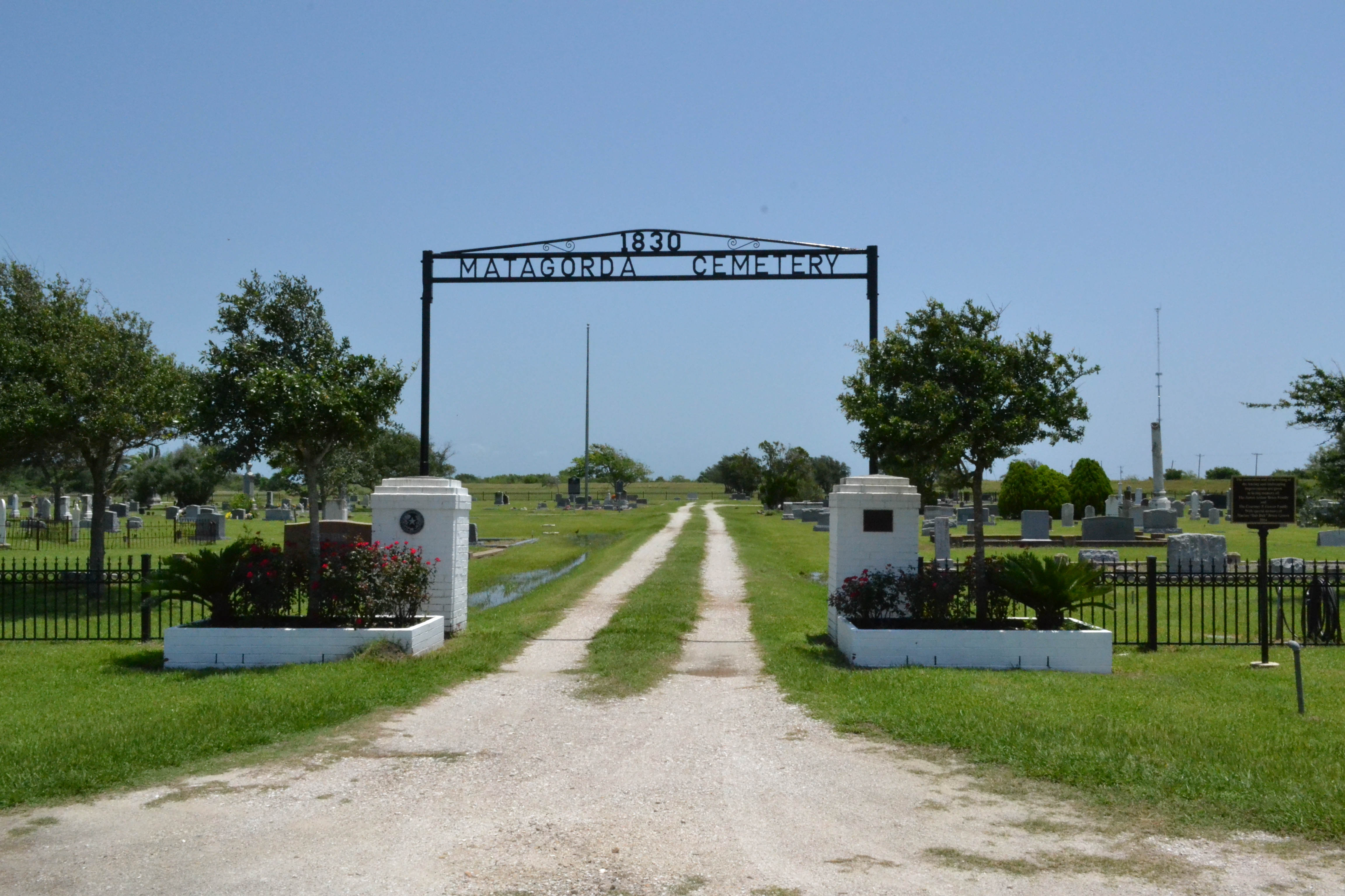 Matagorda Cemetery gates, Matagorda, Texas. Listed on the National Register of Historic Places.